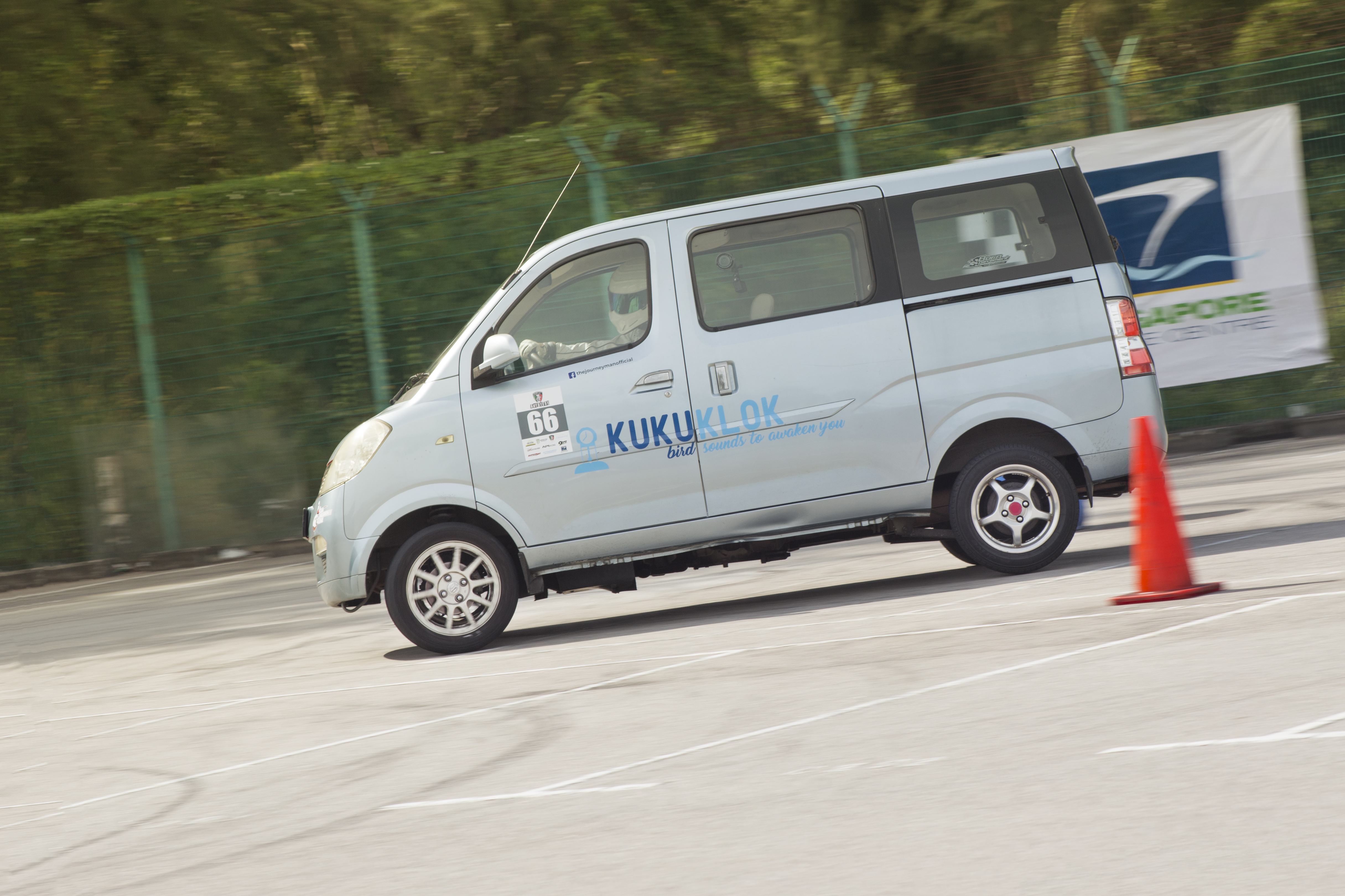 An Wuling Journey (The Journeyman) at Autotest Round 4 held at Tanah Merah Ferry Terminal